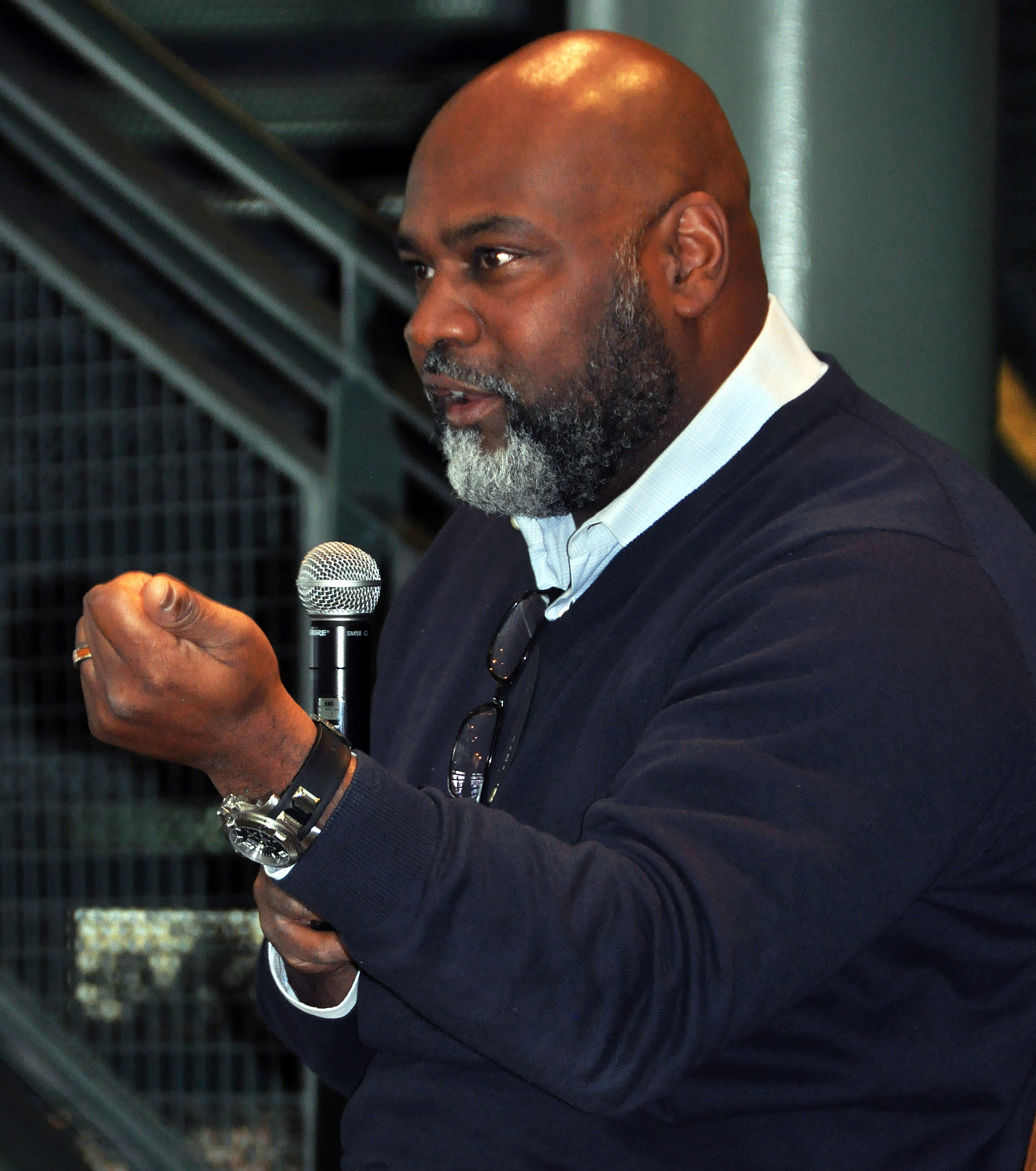 Green Bay Packers director of player engagement Rob Davis addresses Wisconsin National Guard Challenge Academy cadets during a Dec. 15 visit to Lambeau Field. Members of the Green Bay Packers staff and playing roster spoke about achieving success despite coming from disadvantaged backgrounds. The cadets also received a brief tour of the historic National Football League stadium. Challenge Academy is a program designed to help teens at risk of not completing high school instill core values and discipline, make improved life choices and improve their academics. Wisconsin Department of Military Affairs photo by Vaughn R. Larson